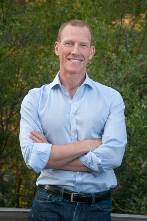 Jamie Metzl in 2013